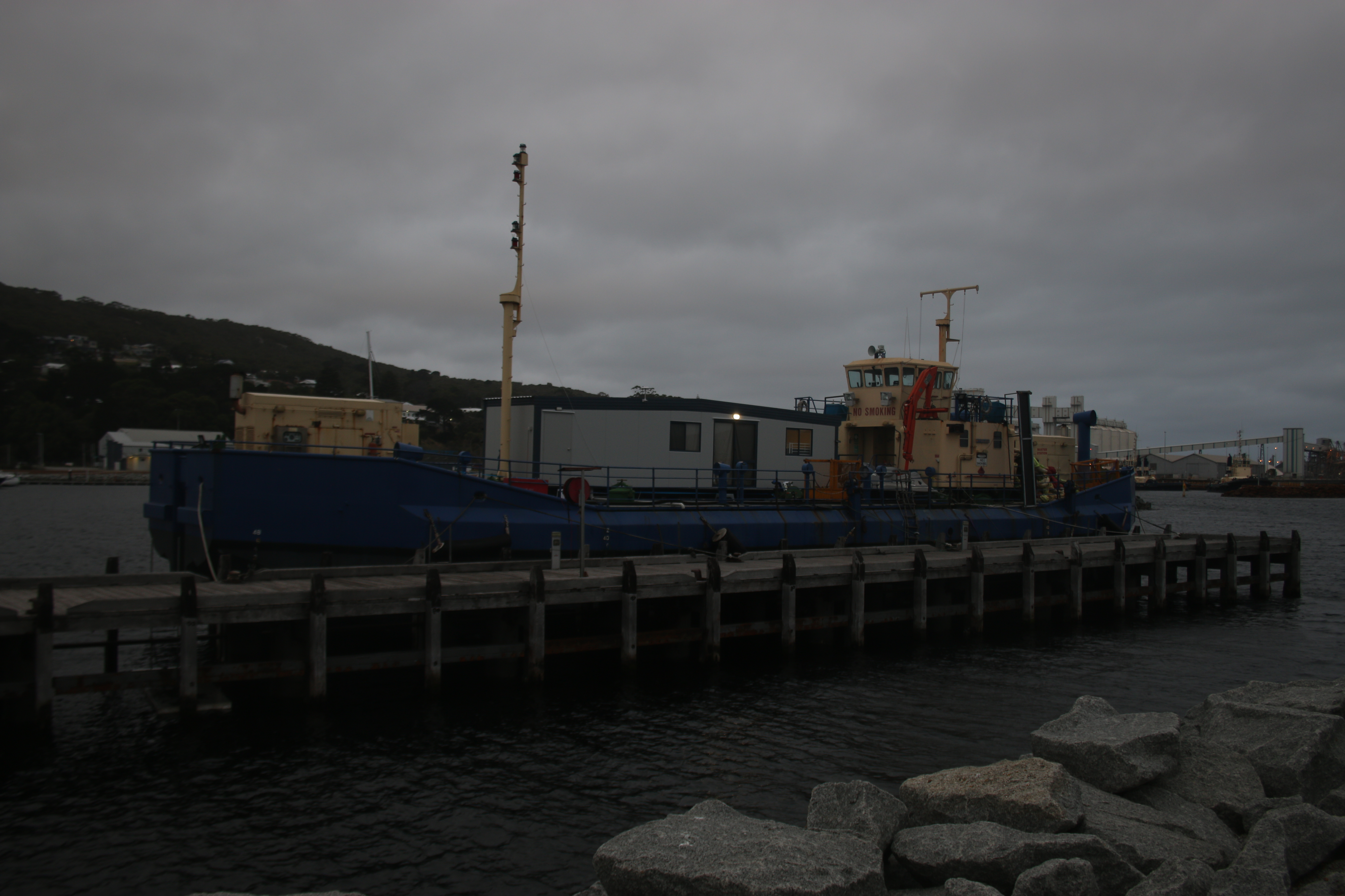 ex-RAN SPWFL, it appears to have had accommodation added since its military days